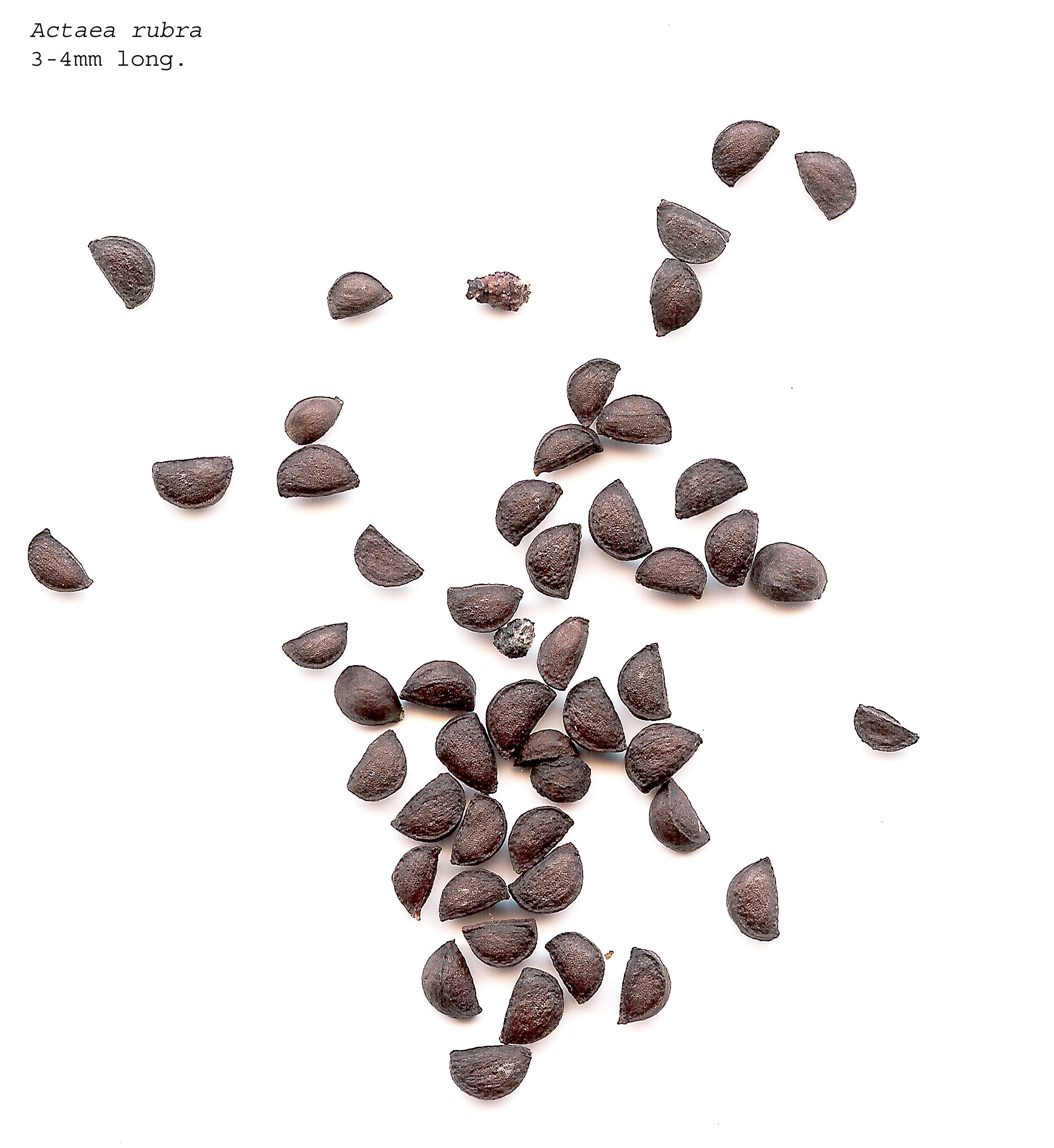 Self made scan of the seeds of Actaea rubra made march 2008.